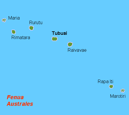 Map (rough) of the Austral Islands, French Polynesia, own work composed from various mapreferences